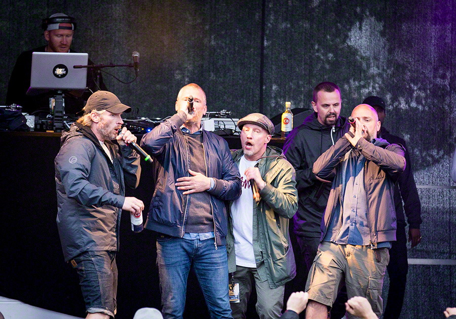 Tommy Tee performs with T.P. Allstars and guests at Quart Festival in Kristiansand on 29. June 2016.